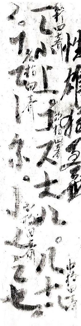 Tenth century manuscript from Dunhuang Mogao Caves showing music notation for pipa. Five Dynasties period.